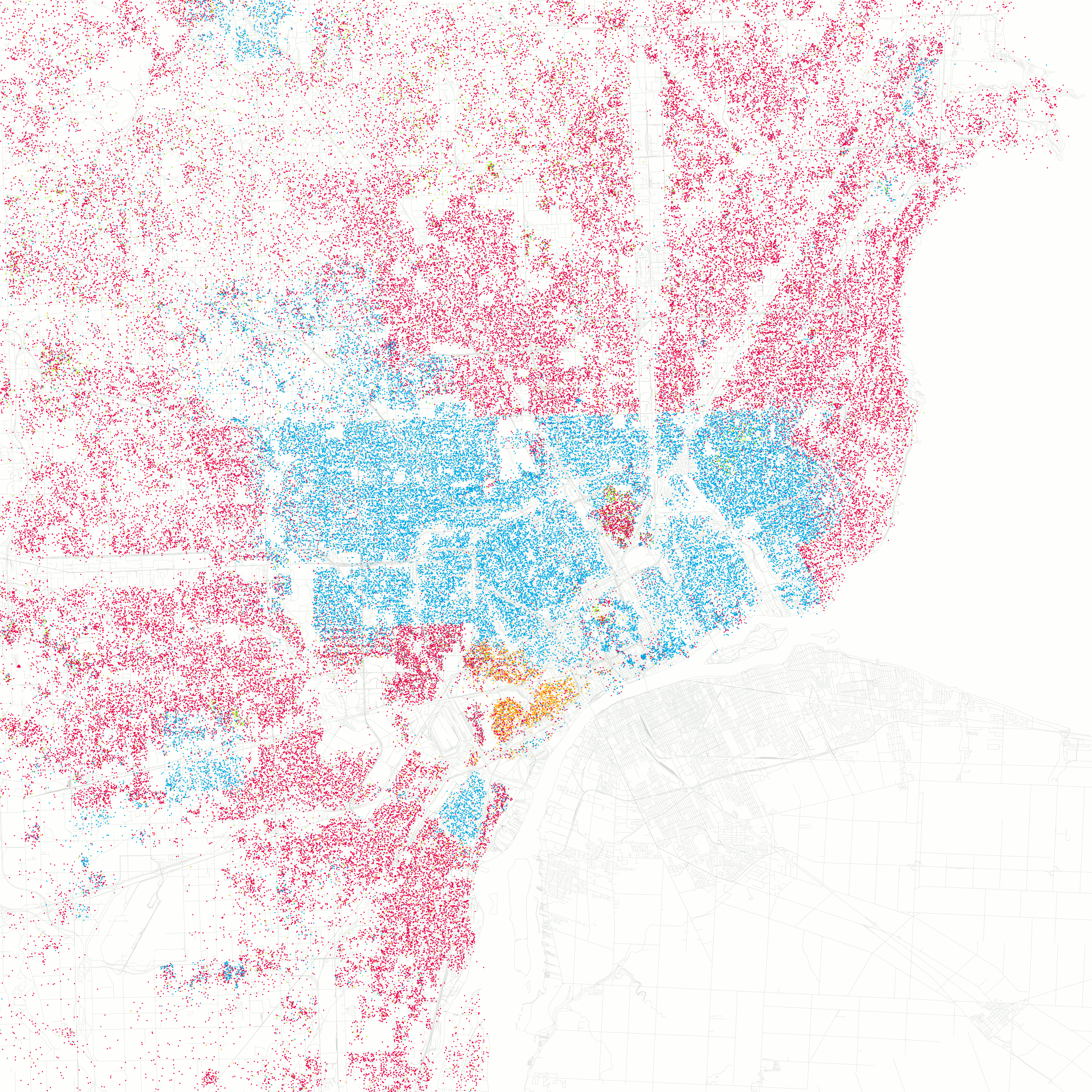 Race and ethnicity in Detroit, Michigan White African-American Asian Hispanic OtherEach dot is 25 people.